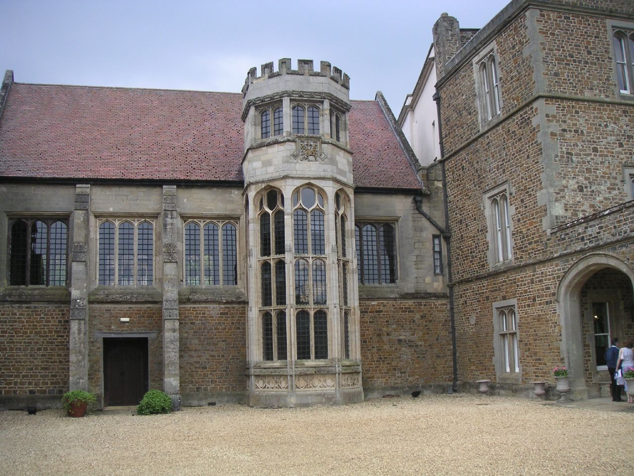 Fawsley Hall, Fawsley, Northamptonshire, England